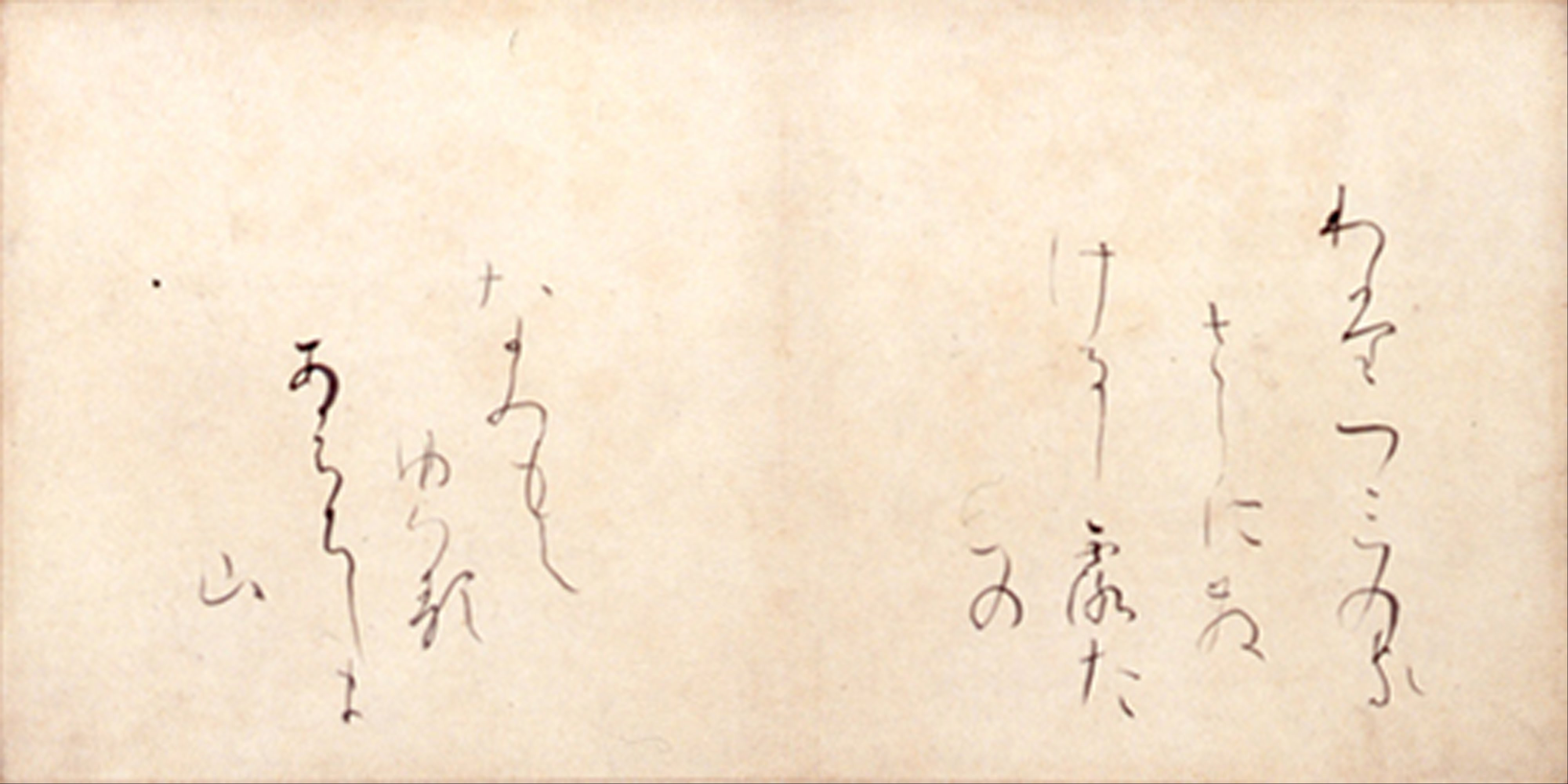 Important Cultural Property (Japan)